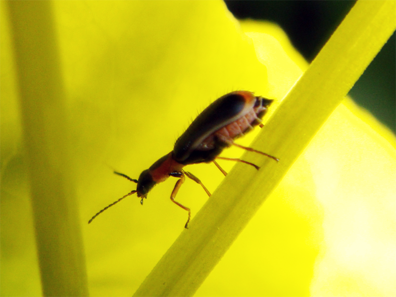 Attalus amictus in Ansião, Leiria, Portugal